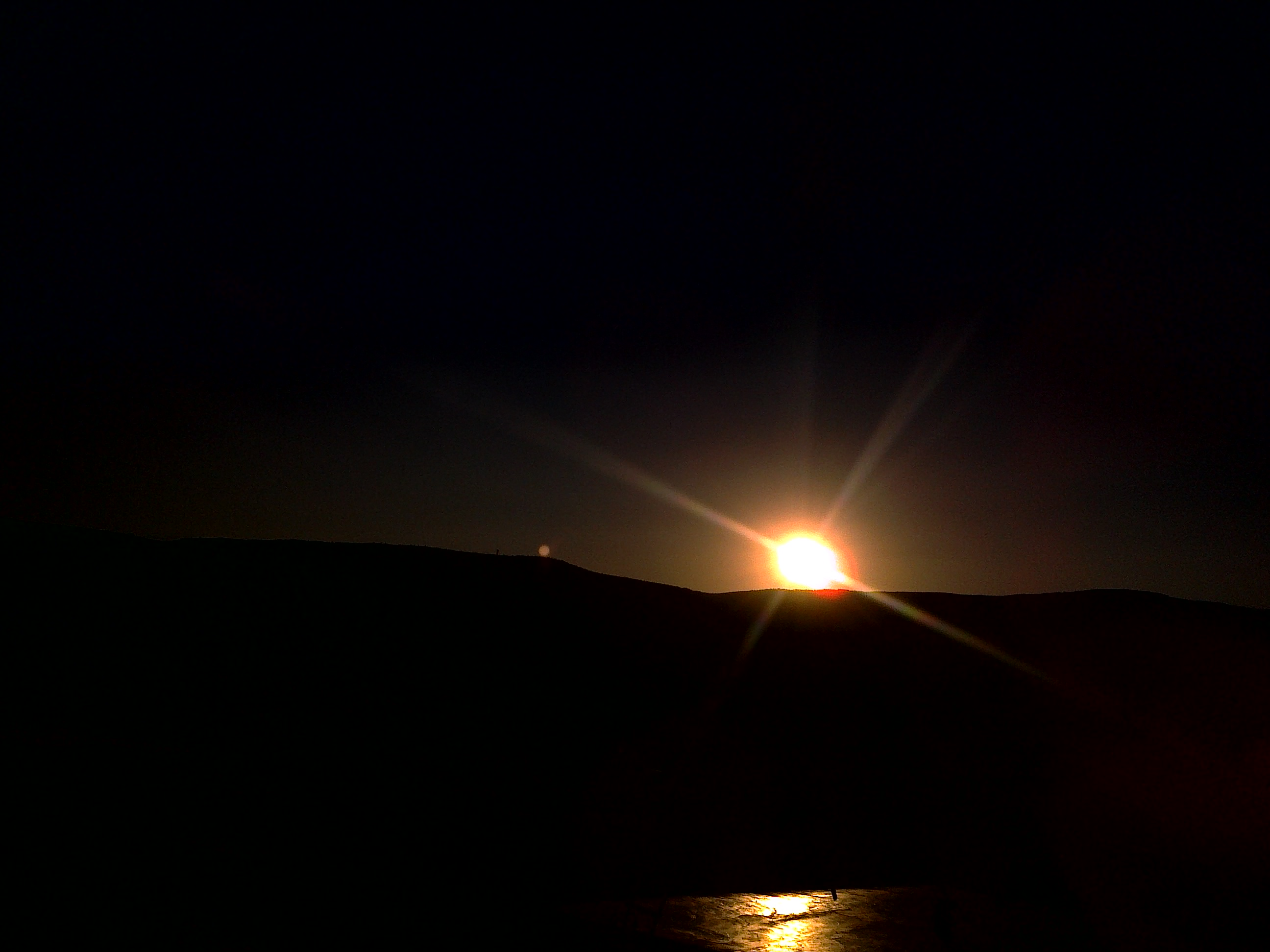 Photo for the planet Mercury in Syria